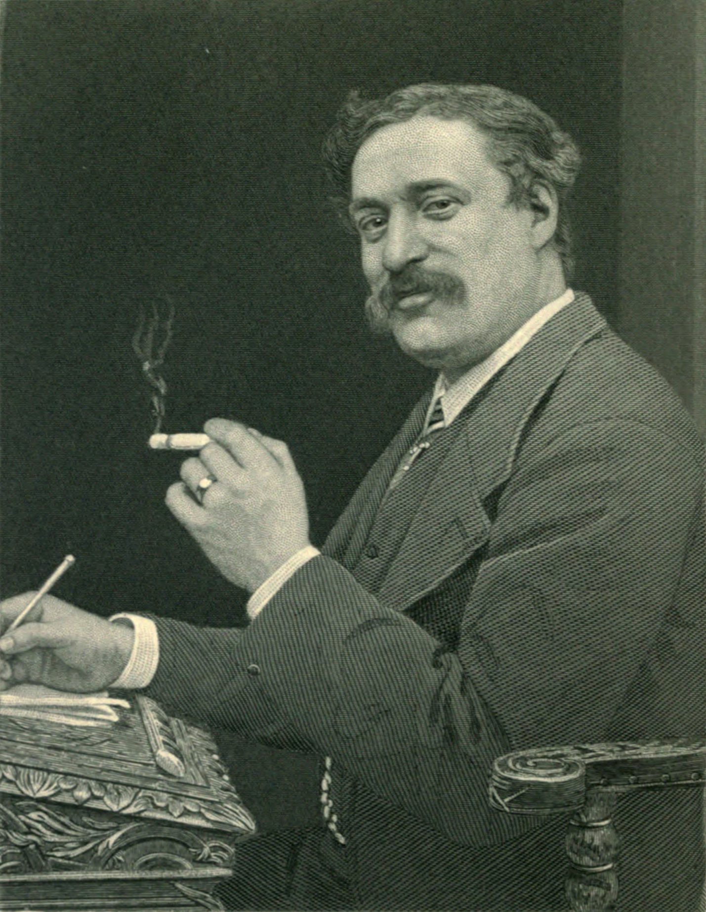 Engraved portrait of Edmund Hodgson Yates with a cigarette at his writing desk.